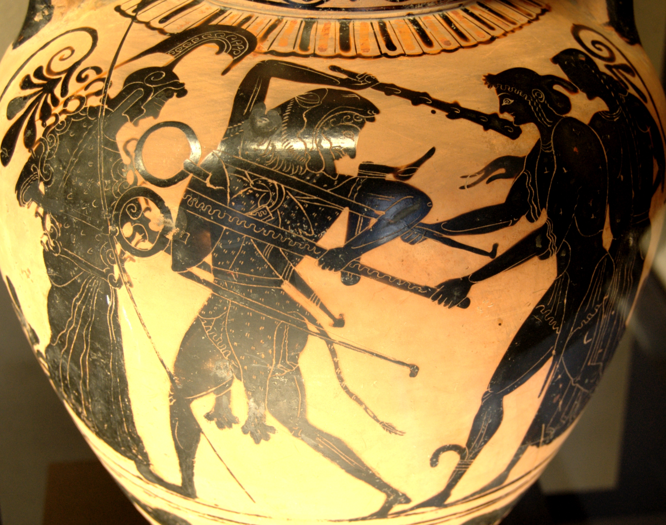 Dispute of Heracles and Apollo for the Delphic tripod. Attic black-figure amphora, 510–500 BC.